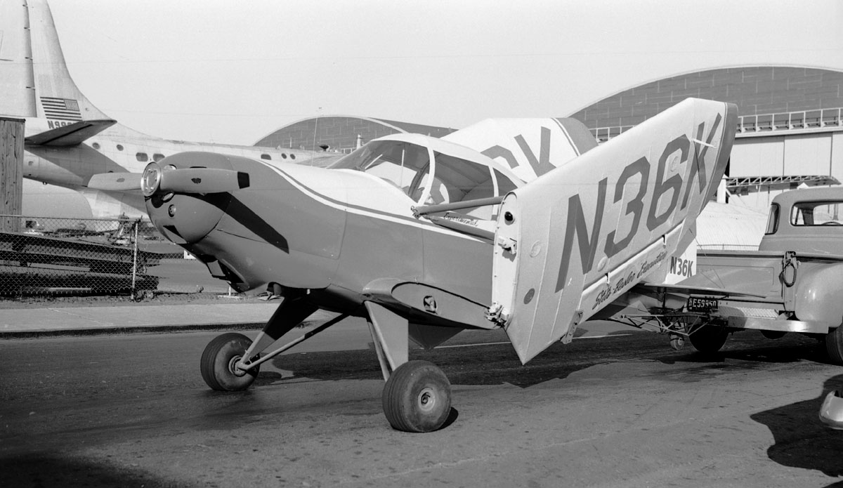 Not a Roadable aircraft but one designed to be towed by a car to and from the airport. At Oakland, CA in September 1955.